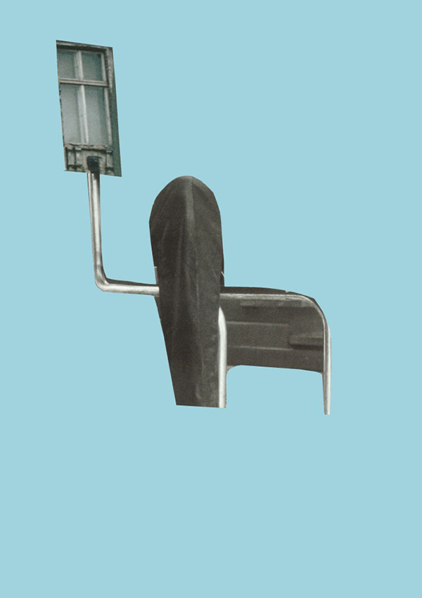 Sergei Sviatchenko. From the series Less, 2006